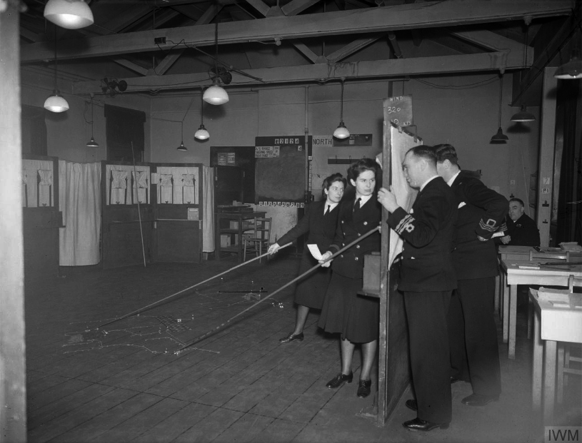 A naval wargame conducted at the Western Approaches Tactical Unit (WATU) in Liverpool during World War II. The male officers on the right are players, and they are looking through peepholes in a screen that prevents them from seeing the entire playing field, thereby simulating the fog of war. The female officers in the center of the rooms were responsible for computing the effects of the players' orders and moving the model ships across the game board.